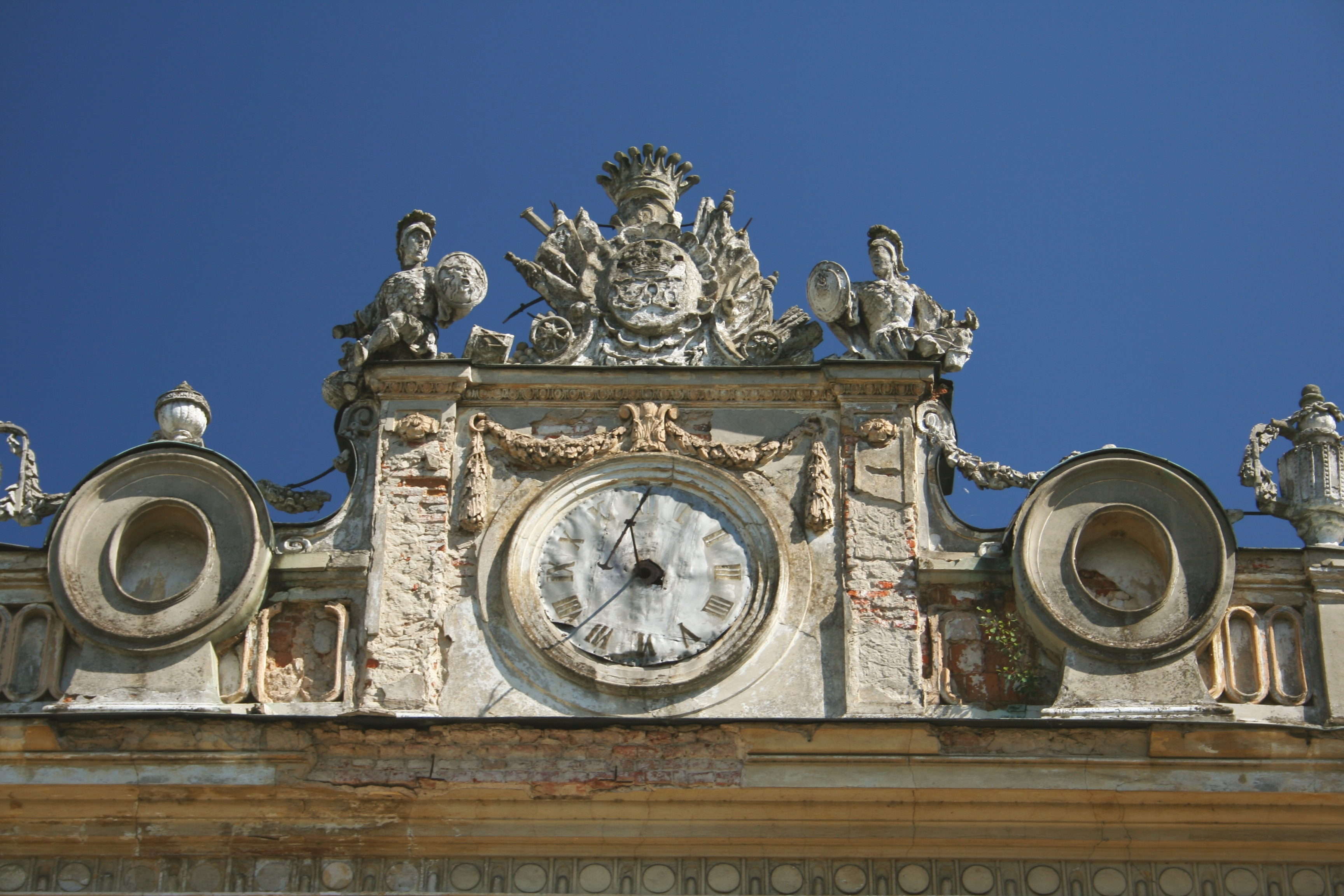 The Dembińscy's Palace in Szczekociny, Poland